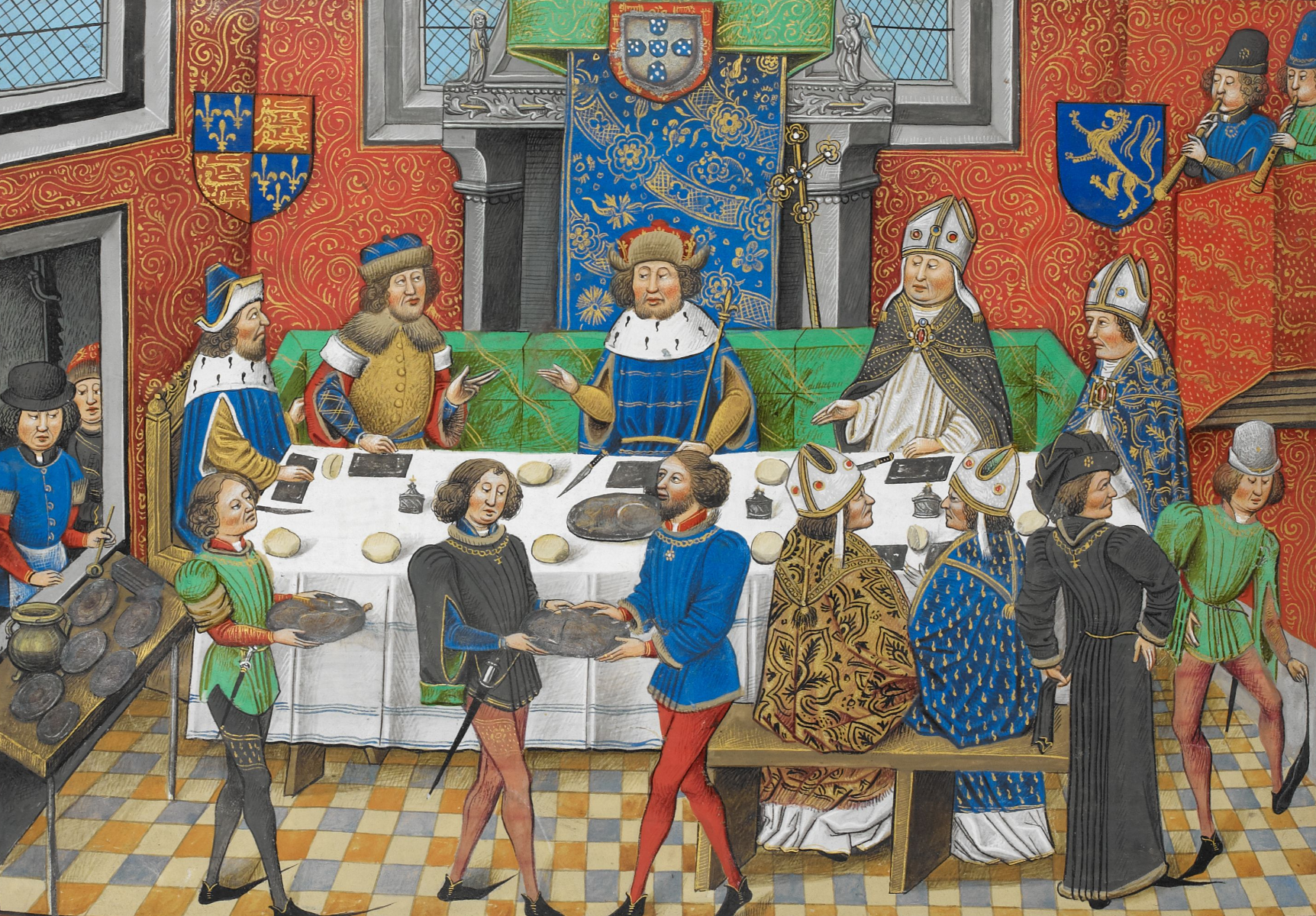 John of Gaunt, Duke of Lancaster, dining with John I, King of Portugal.